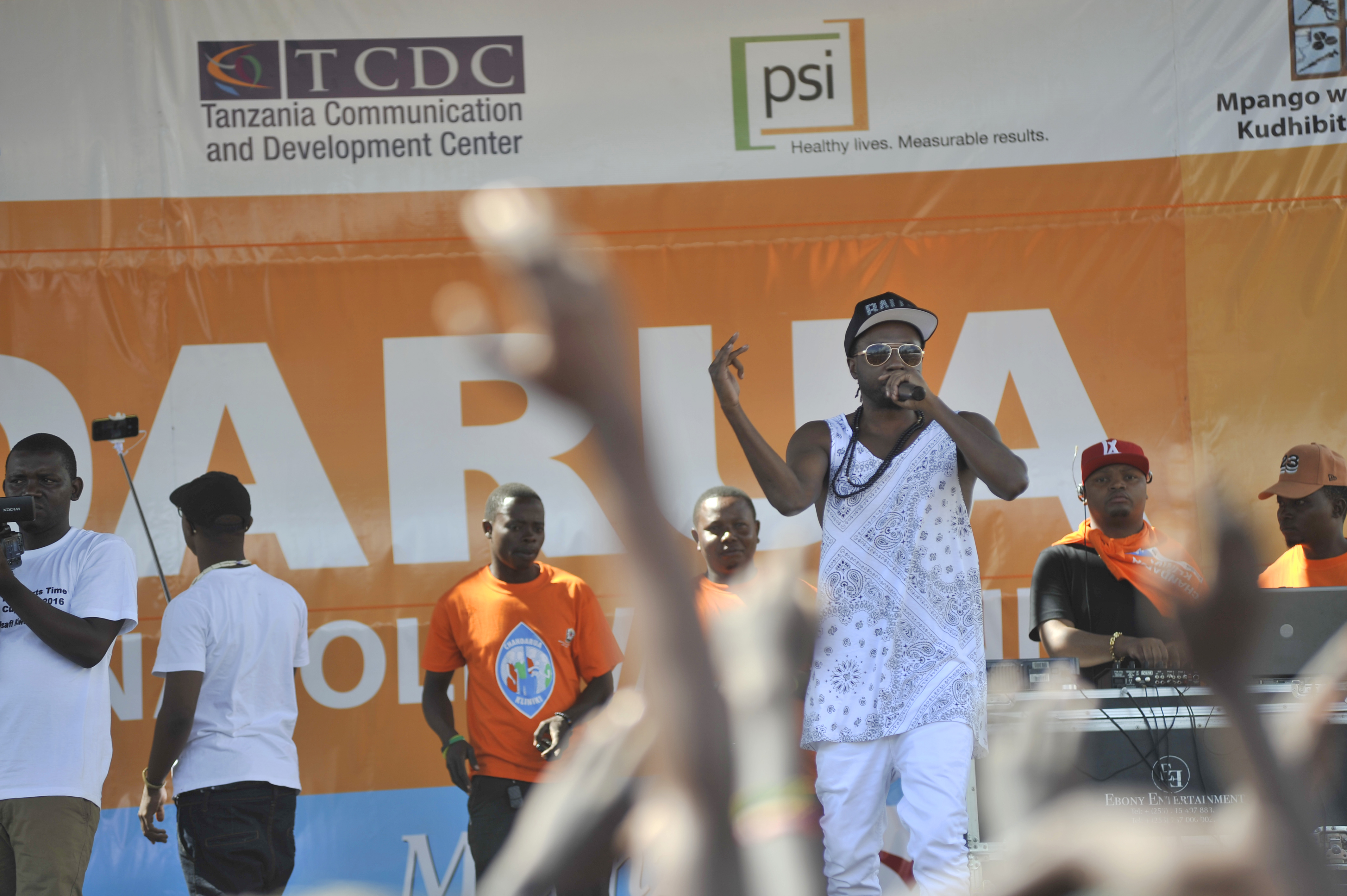 Launch event of the pilot health facility based ITN distribution in Mtwara. Singer Weusi Jo Makini performs on stage during the ceremony. © 2016 Riccardo Gangale/VectorWorks, Courtesy of Photoshare